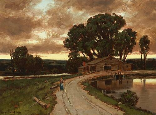 Figure on the road and farmhouse at sunset